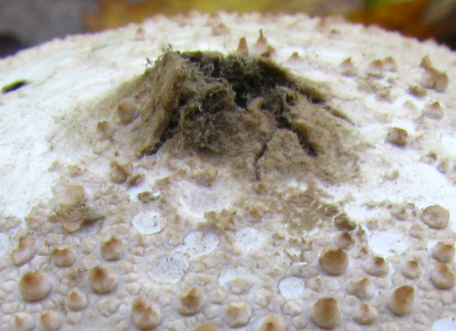 Closeup of the ostiole (opening) of the common puffball Lycoperdon perlatum Pers. Image cropped from original by uploader.